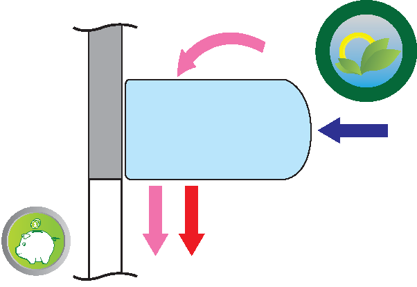 Air curtains Li DualFlow